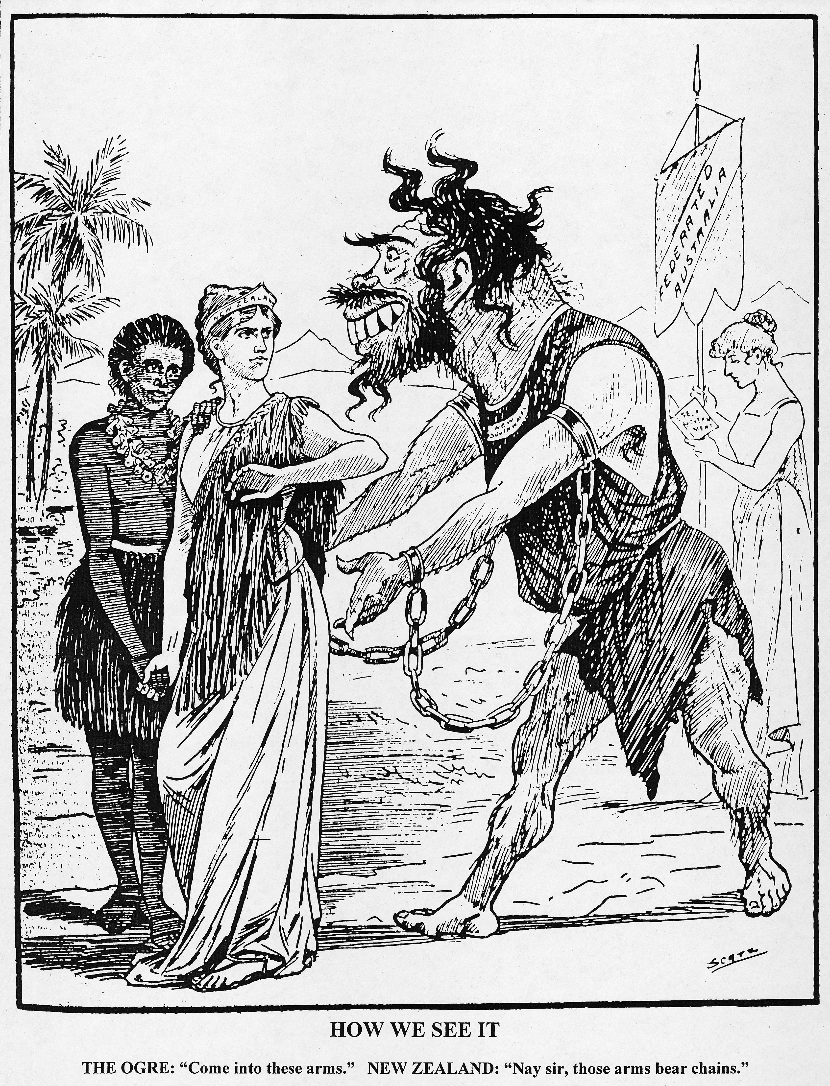 How we see it. A cartoon depicting New Zealand's reaction to Australia's invitation to join their federation.